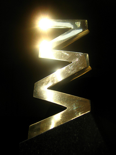 Web Fest Statuette awarded to the winners of the Web Fest individual categories. Srpski (latinica): Web Fest statueta koja se dodeljuje pobedniku Web Fest-a po kategorijama. Српски (ћирилица): Веб Фест статуета која се додељује победнику Веб Феста по категоријама.